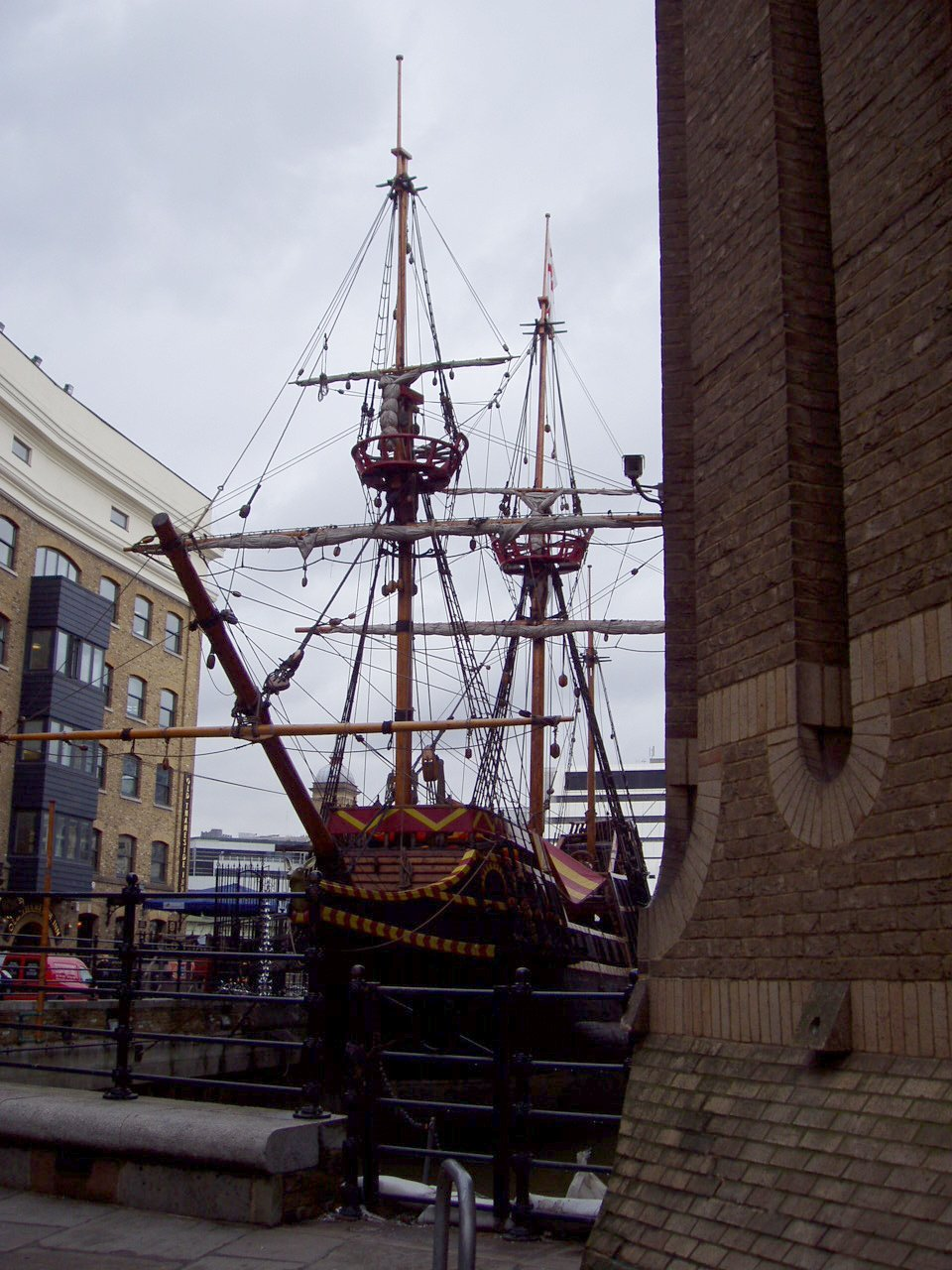 A frontal view. Cramped between tall buildings, the Golden Hind lies in a small dock on the River Thames